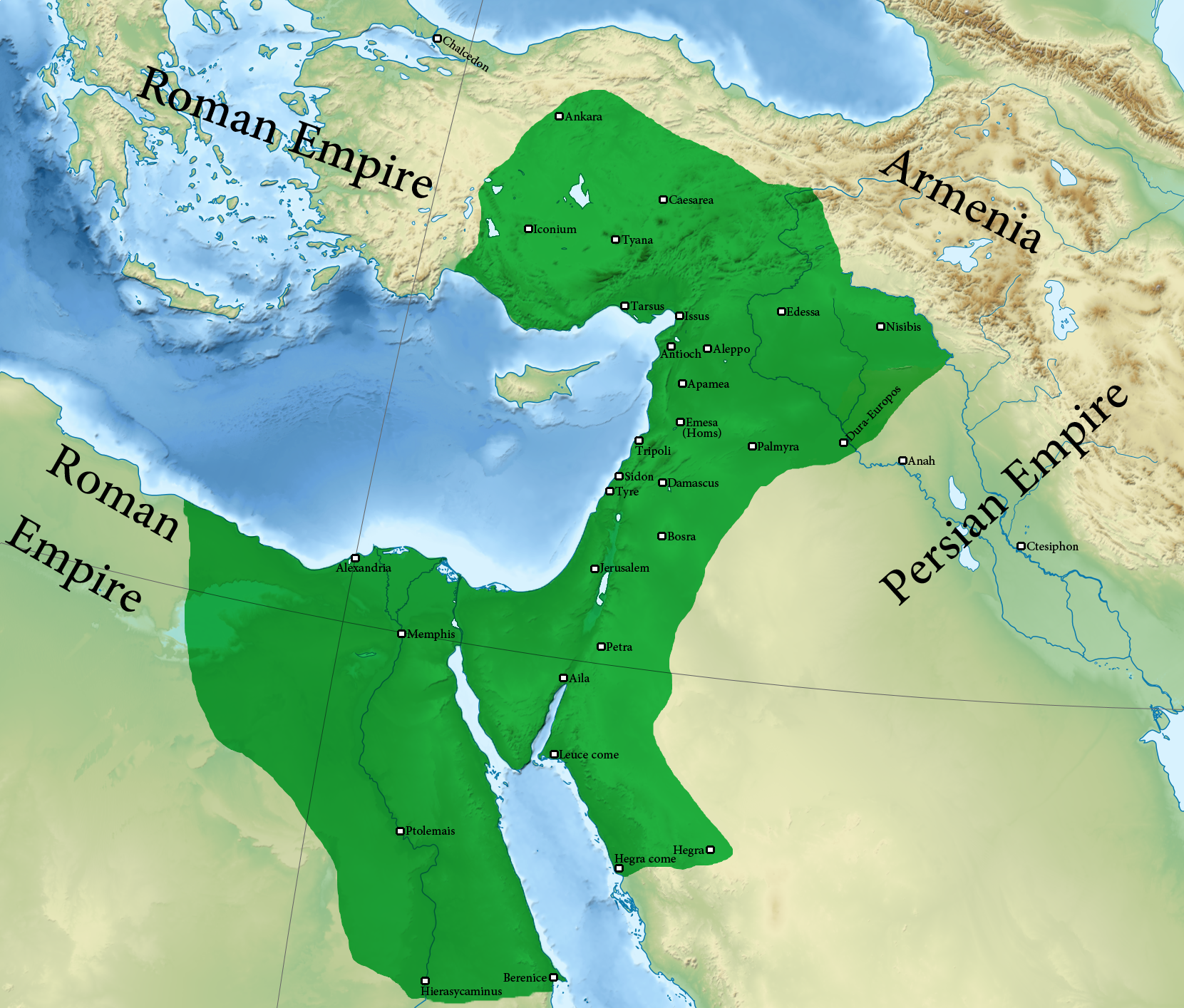 Palmyra at its greatest extent in 271 AD. Palmyra annexed the Roman provinces in the east : Egypt, Syria, Phoenice,Syria Palaestina, Arabia, Mesopotamia and the Anatolian regions up to Ankara and including Galatia.Warwick Ball, Rome in the East: The Transformation of an Empire Alaric Watson, Aurelian and the Third Century Spencer C. Tucker, 500 Great Military Leaders